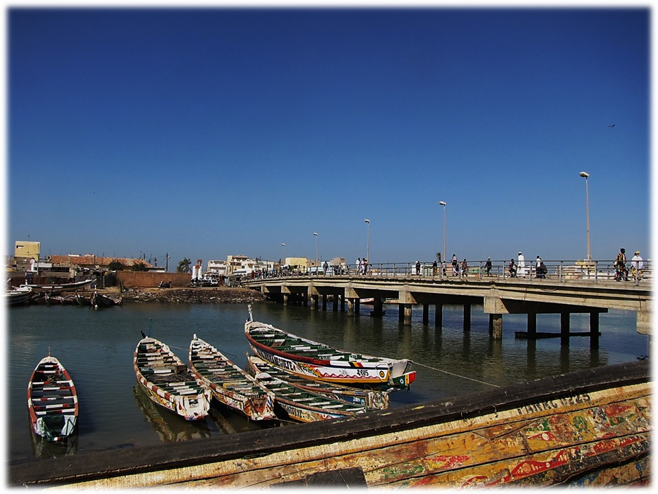 Bright December morning at the bridge connecting the historic old section of Saint-Louis (Ile Sud and Ile Nord) to the busy fishing enclaves of Guet Ndar.December 2014.